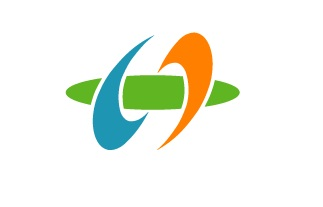 Flag of Inabe Mie